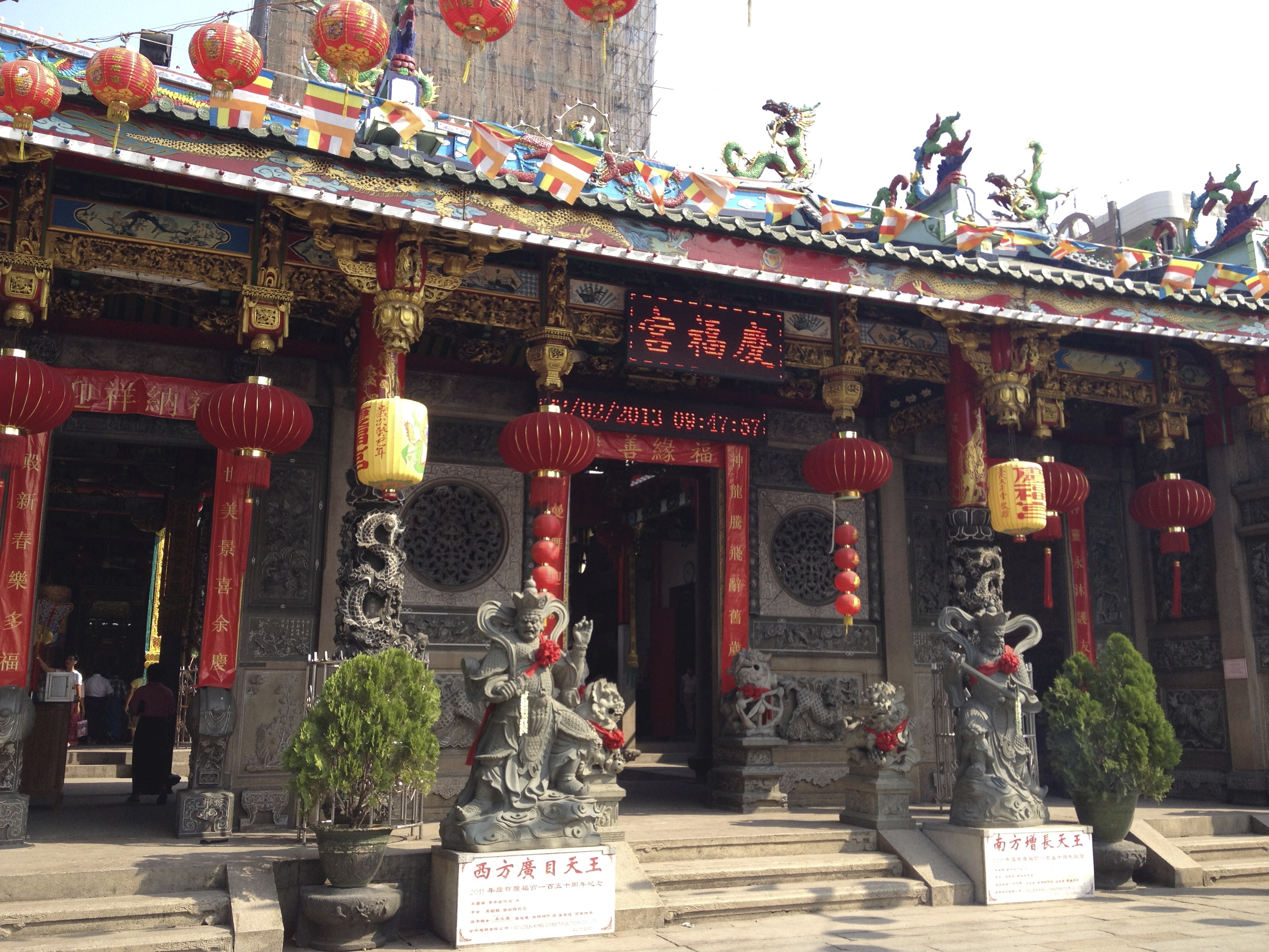 Keng Hock Keong Temple, Yangon